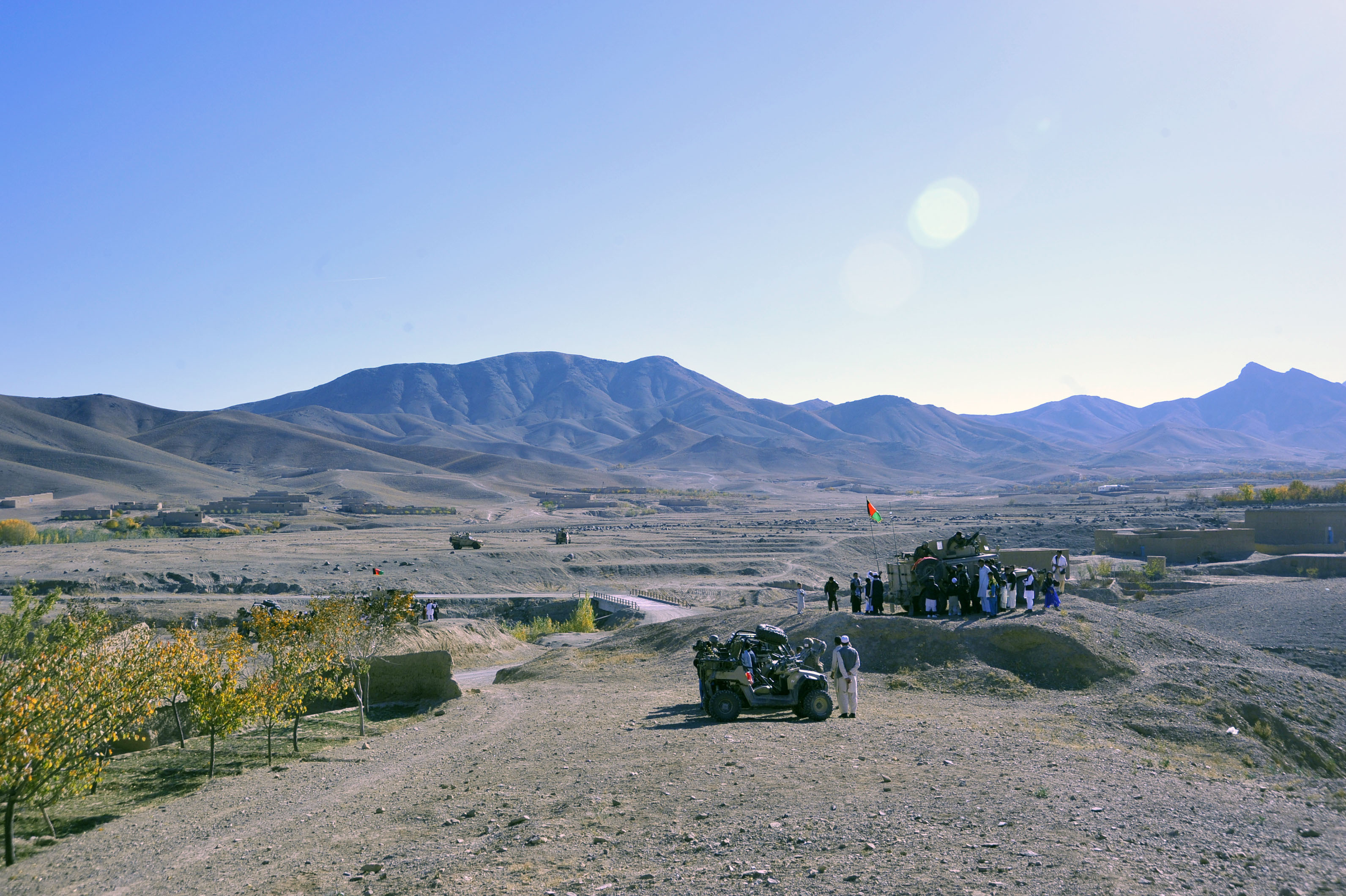 Boys and young men gather around Afghan National Army special forces to receive candy, school supplies and hand-crank radios during a presence patrol in the Sayed Abad district of Afghanistan Nov. 6, 2011. The ANA soldiers and coalition special operations forces visited three villages in the area to distribute items and ask about the living conditions and needs of residents.